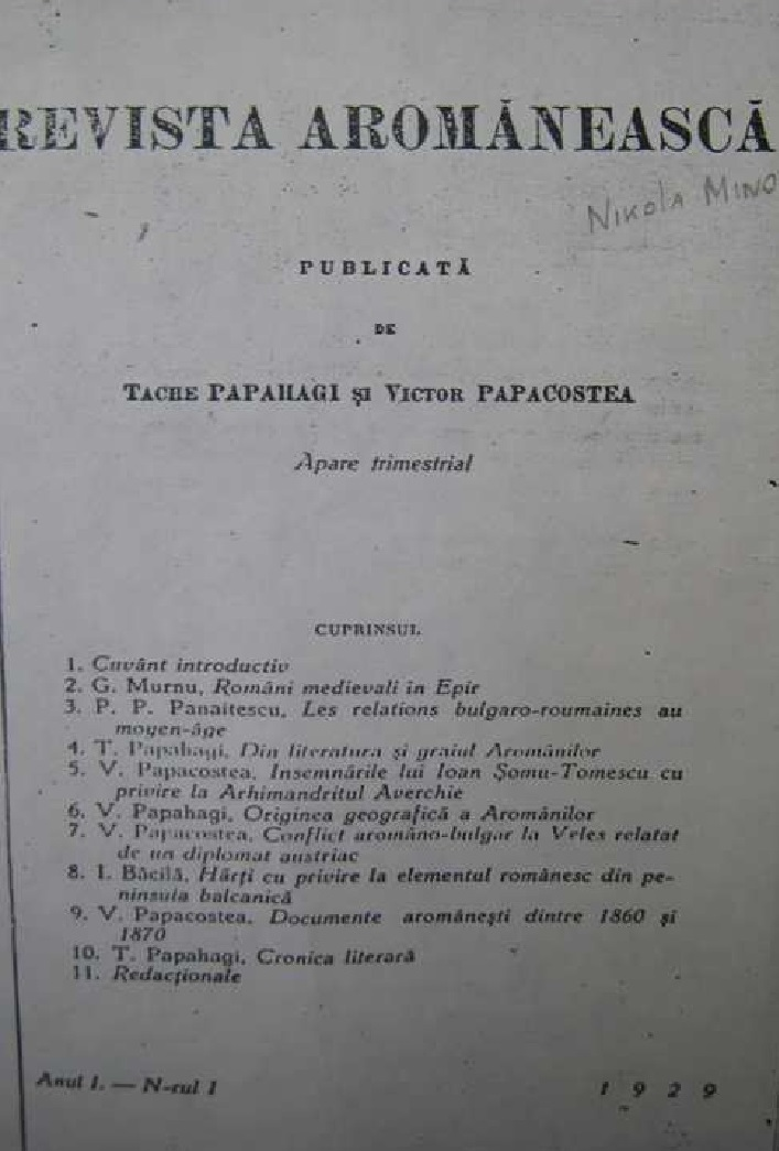 Revista Aromaneasca 1 - 1929